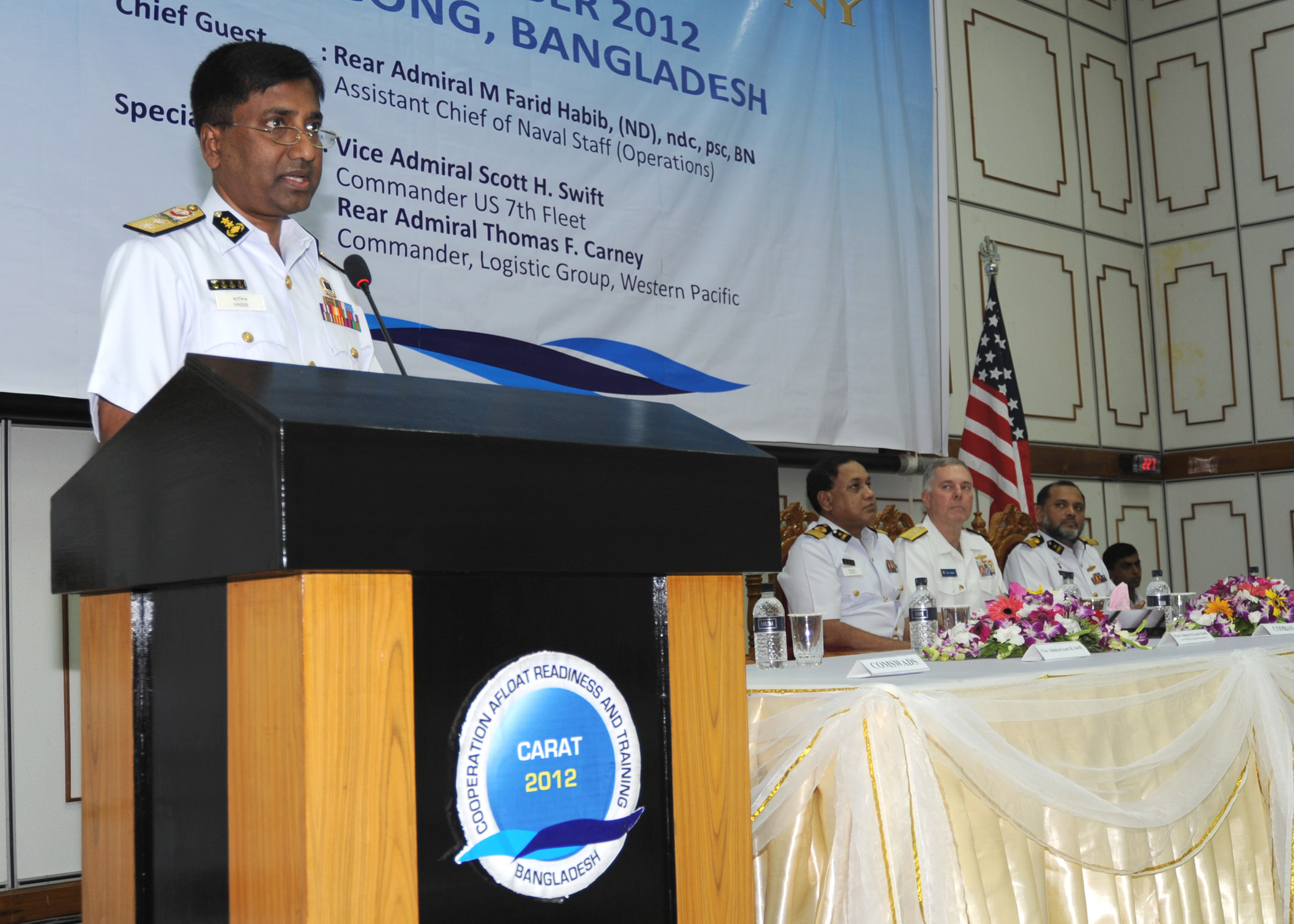 CHITTAGONG, Bangladesh (Sept. 17, 2012) Rear Adm.M. Farid Habib, assistant chief of Naval Staff for the Bangladesh Navy, speaks during the opening ceremony of Cooperation Afloat Readiness and Training (CARAT) 2012. CARAT is a series of bilateral military exercises between the U.S. Navy and the armed forces of Bangladesh, Brunei, Cambodia, Indonesia, Malaysia, the Philippines, Singapore, Thailand and Timor Leste. (U.S. Navy photo by Mass Communication Specialist 3rd Class Sean Furey/Released)